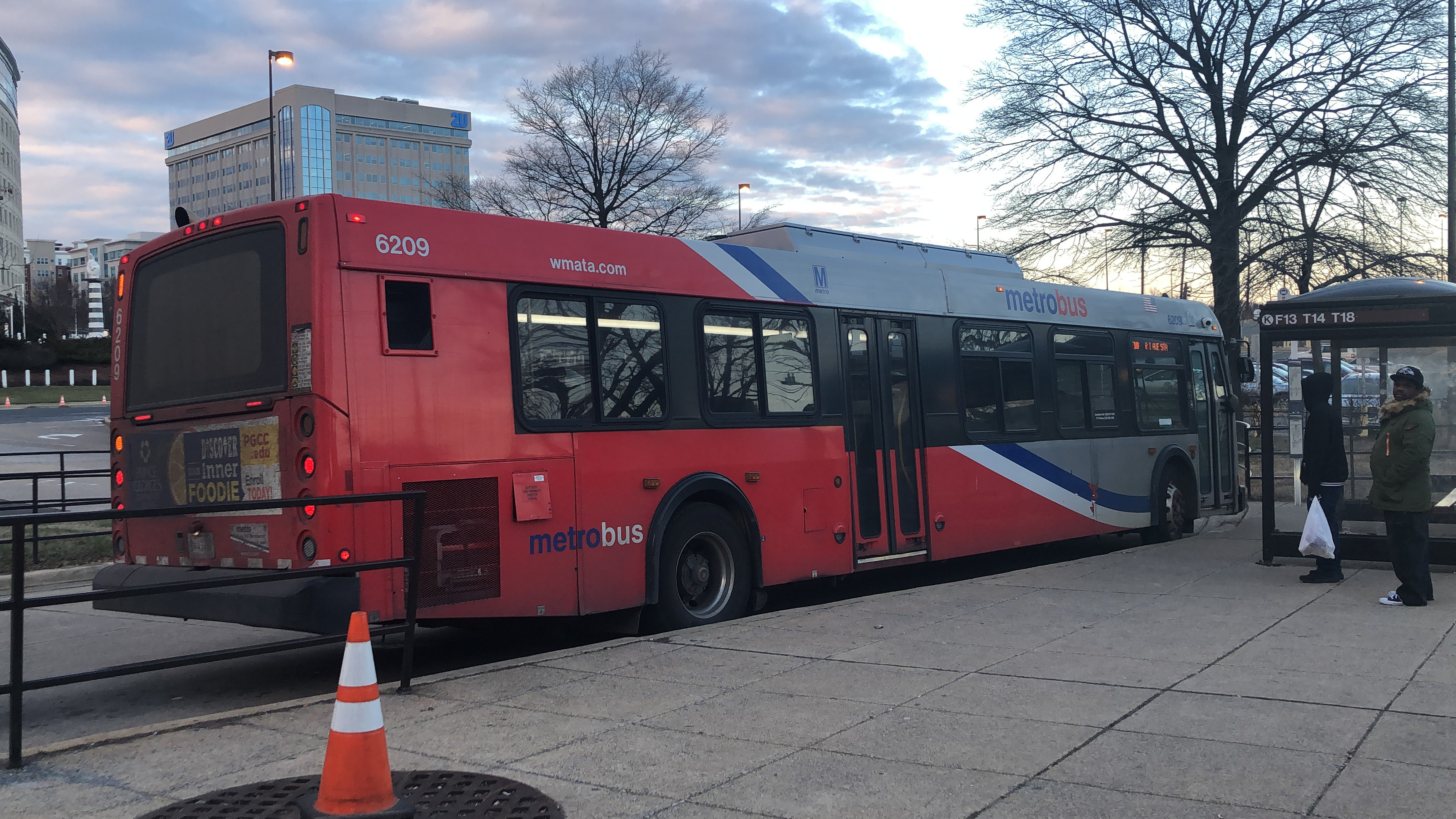 WMATA 2006 New Flyer D40LFR 6209 on Route T18 At New Carrollton station